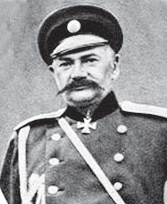 General Pyotr Oganovsky, head of 4th Corps of the Russian army in WW1